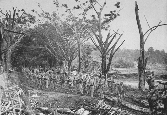 US Marines approach Talasea, on New Britain, March 1944